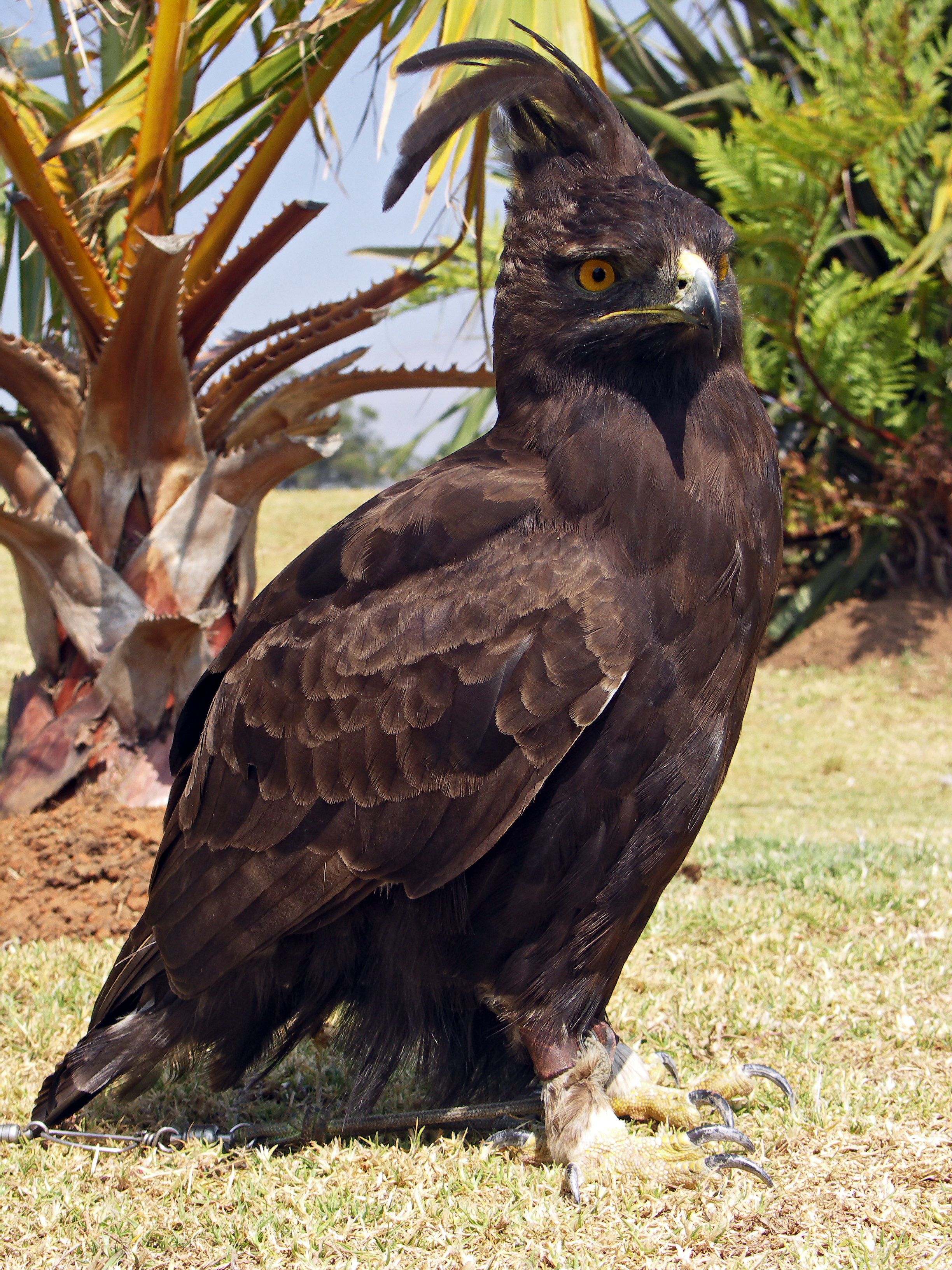 Long-crested Eagle (Lophaetus occipitalis) used for falconry at Falcon Ridge in the Central Drakensberg